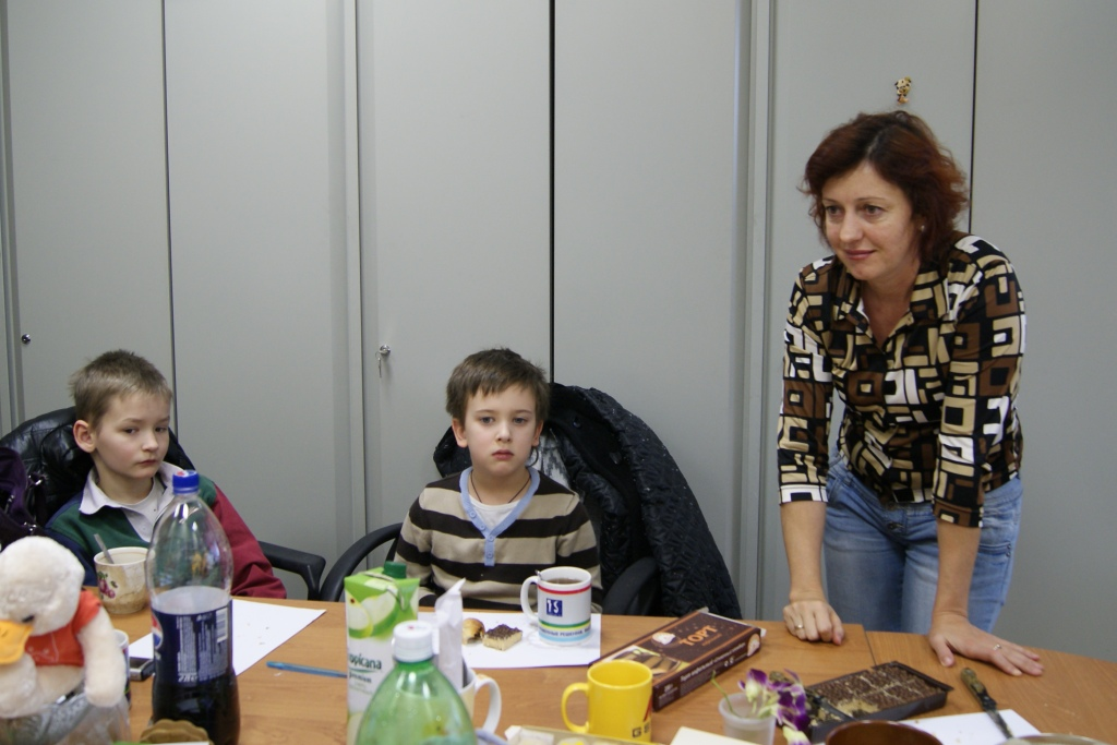 Young and adult volunteers help to wrap a parcels at the charitable foundation «Sozidanie»